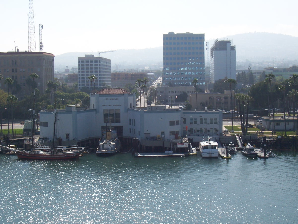 Los Angeles Maritime Museum. Picture taken from a cruise ship in the channel.